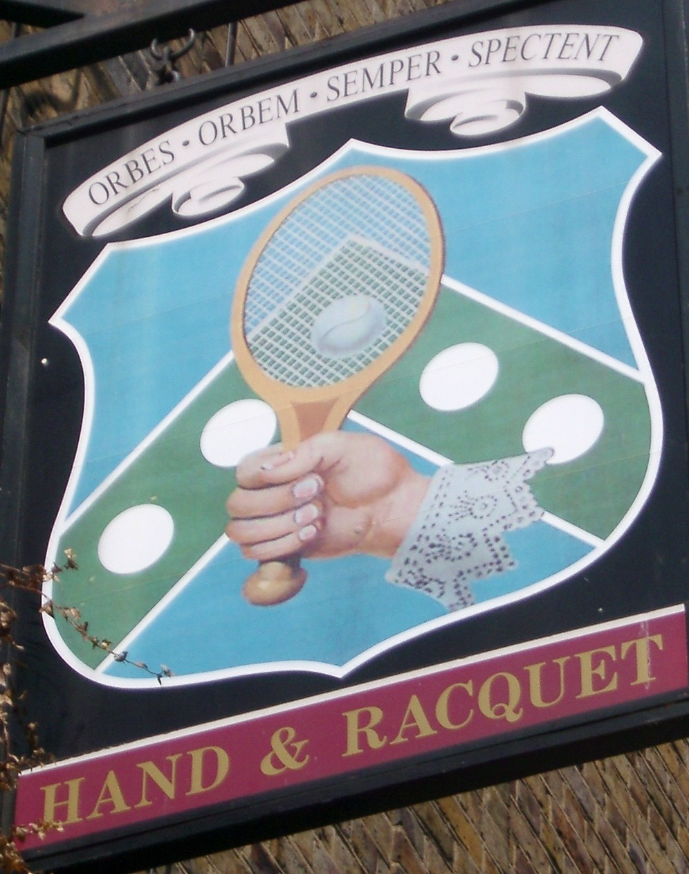 Pub sign Central London